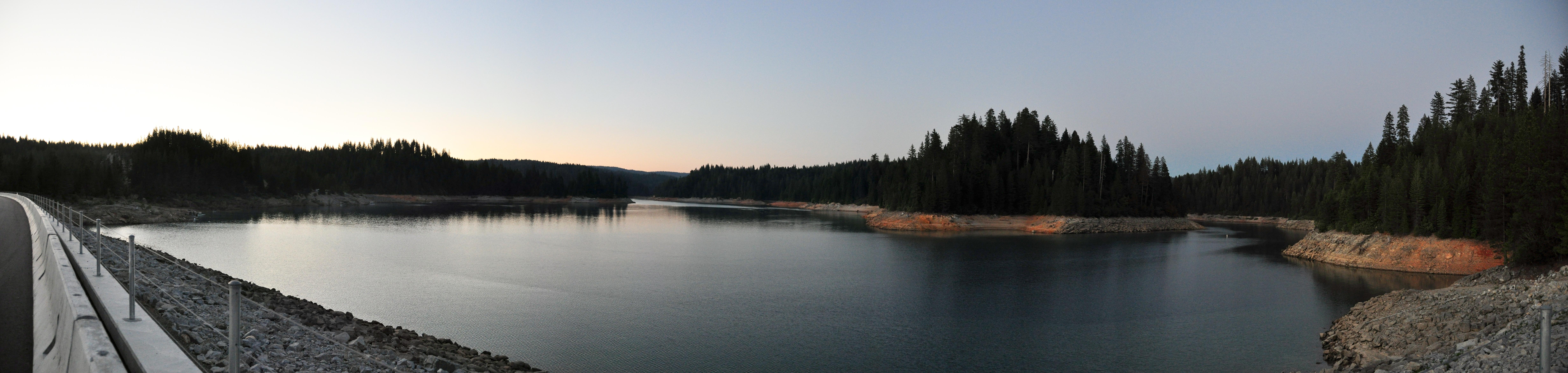 Panoramic of Sly Creek Reservoir, shot from the dam.